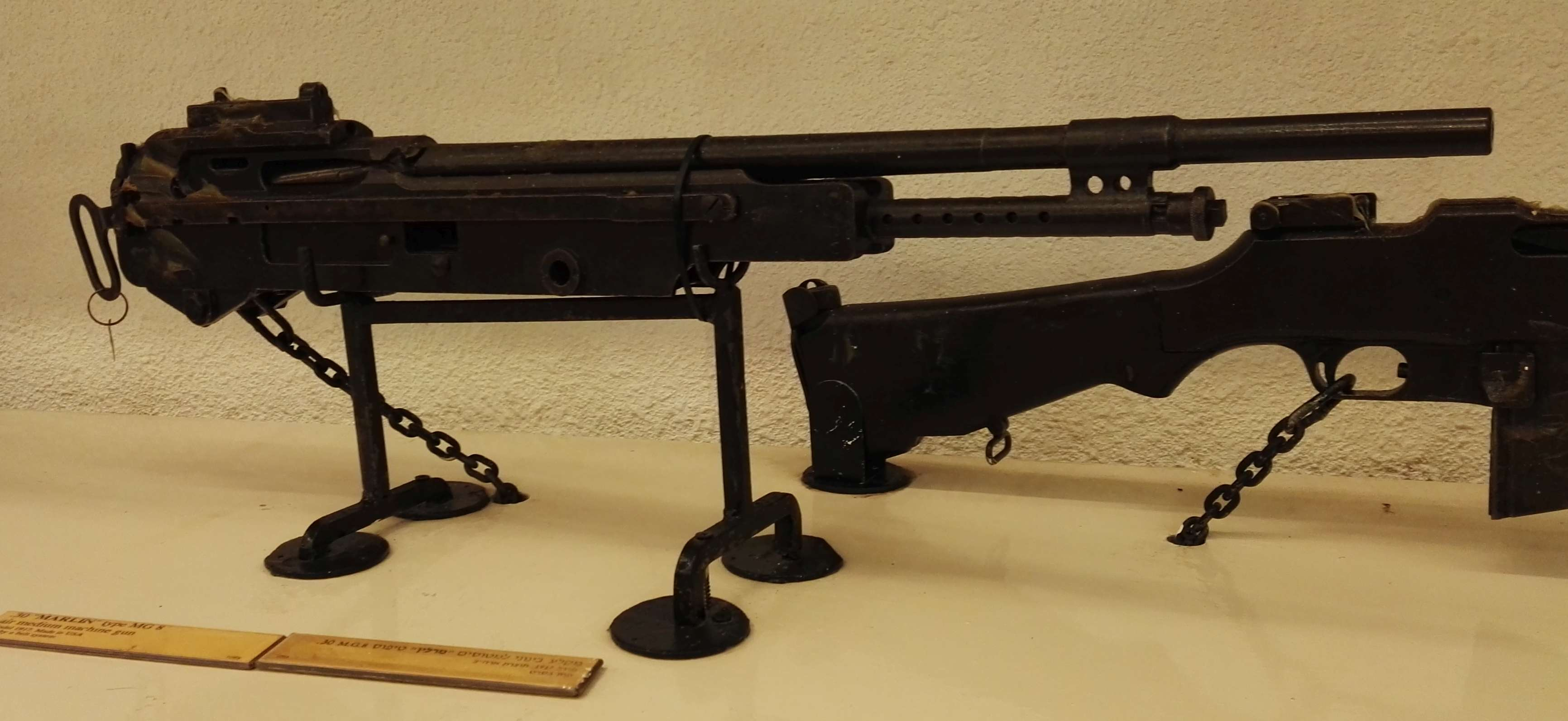 Batey ha-Osef Museum, Tel Aviv, Israel.